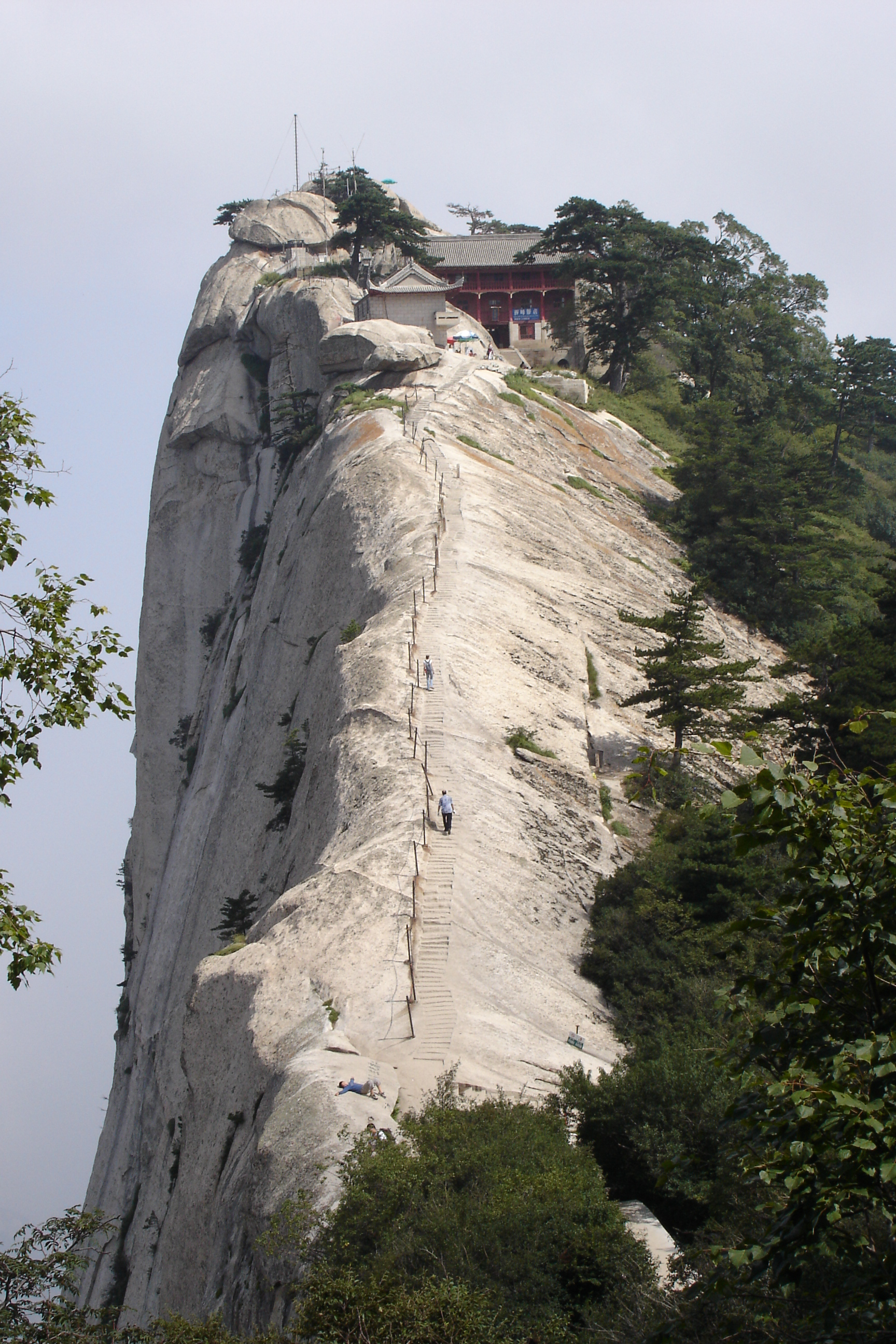 Western summit of the Hua Shan (Shaanxi, People's Republic of China).